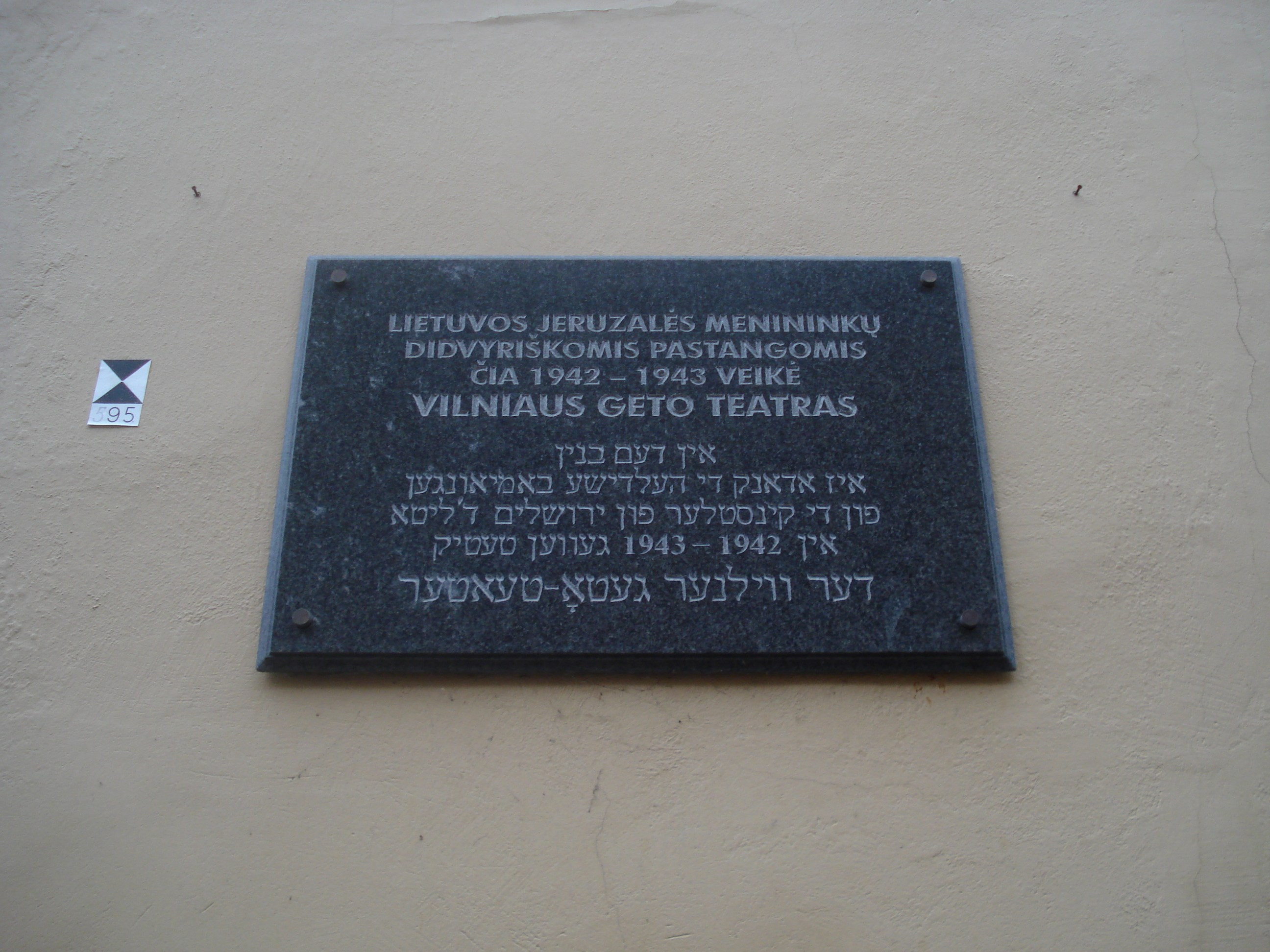 Plaque in memory of theatre of Vilnius ghetto (Arklių g.)